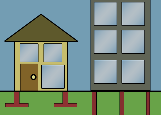 Foundations of buildings